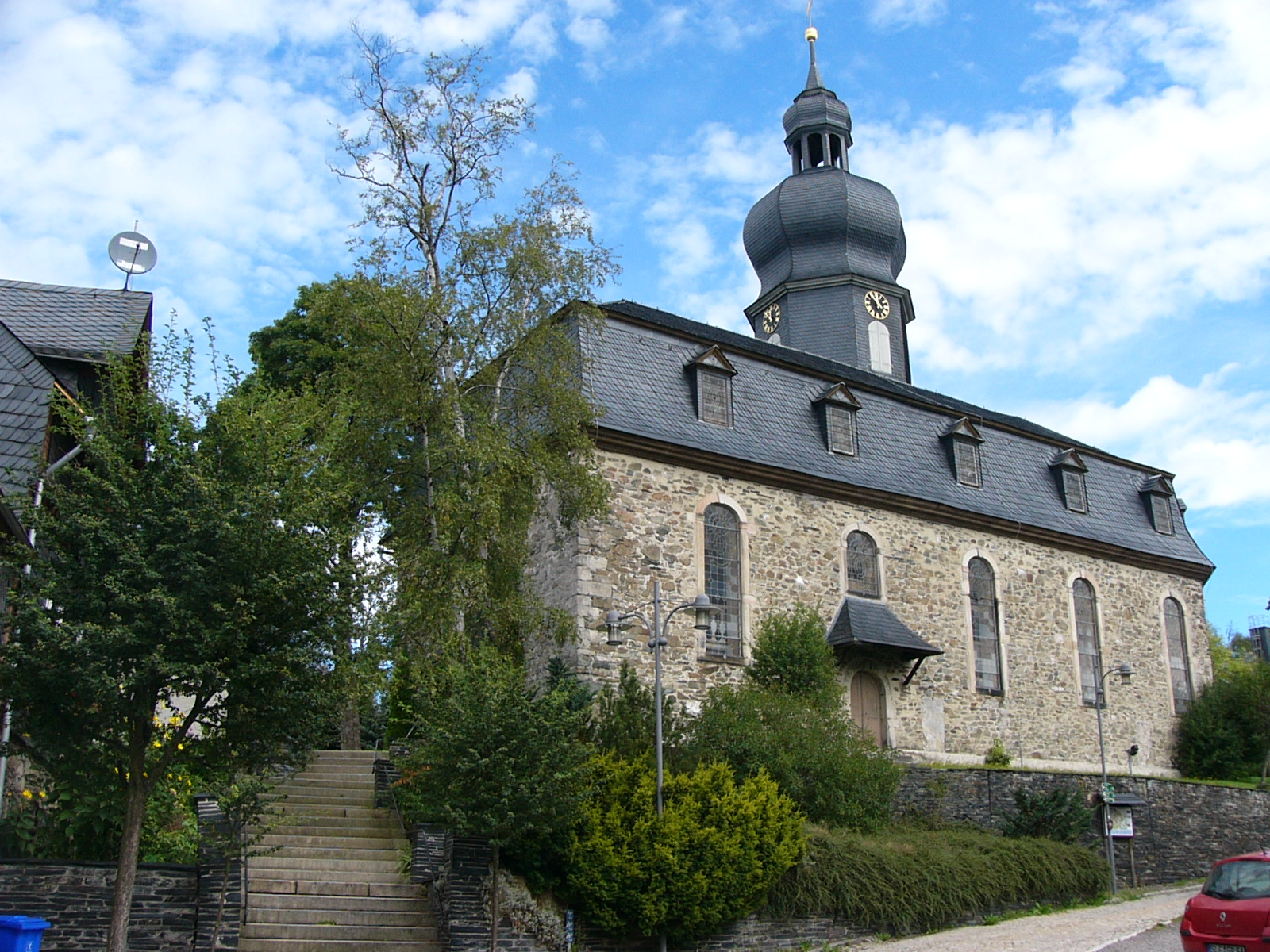 Lehesten (Thüringer Wald)